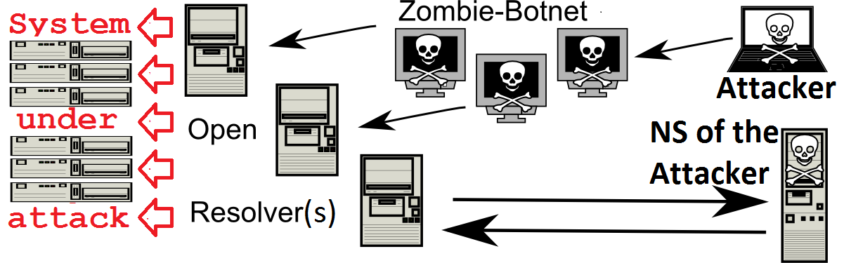 English Translation and re-mix of Matthäus Wander's work. Puplished with the same license as the original.